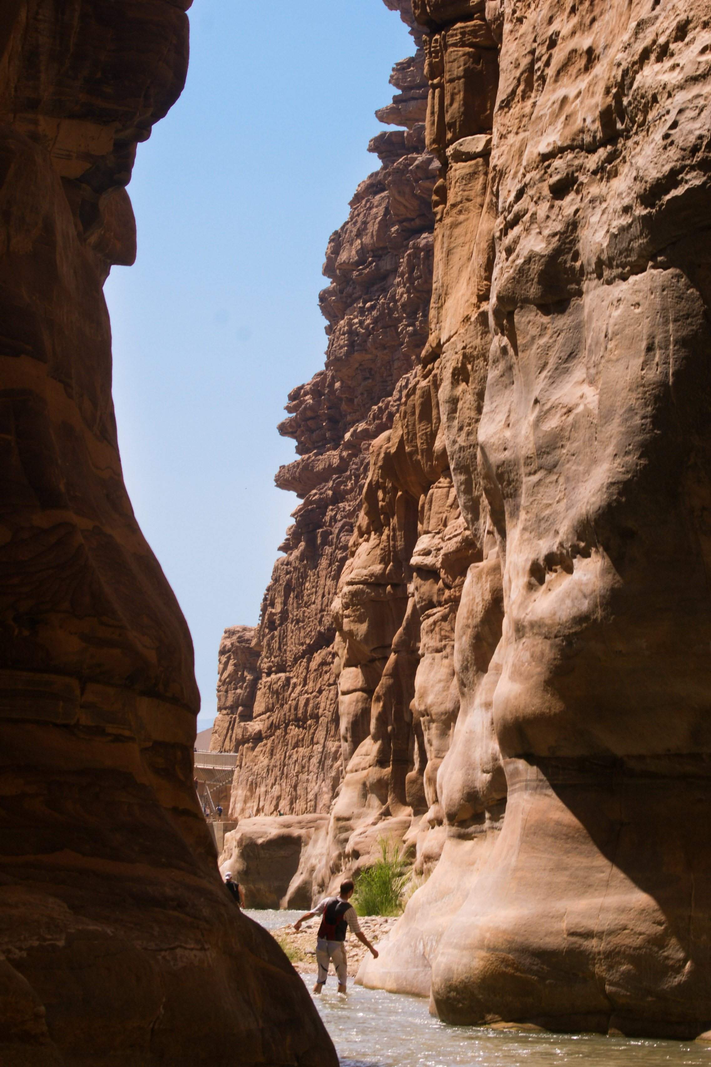 The Mujib Reserve of Wadi Mujib is located in the mountainous landscape to the east of the Dead Sea, approximately 90 km south of Amman